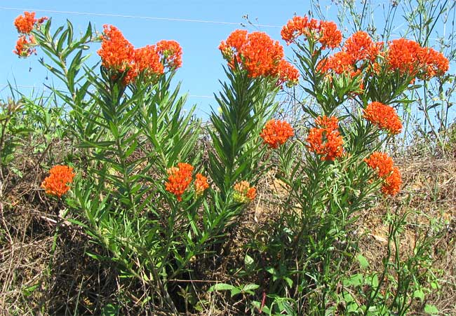 Asclepias tuberosa growing near a roadside.